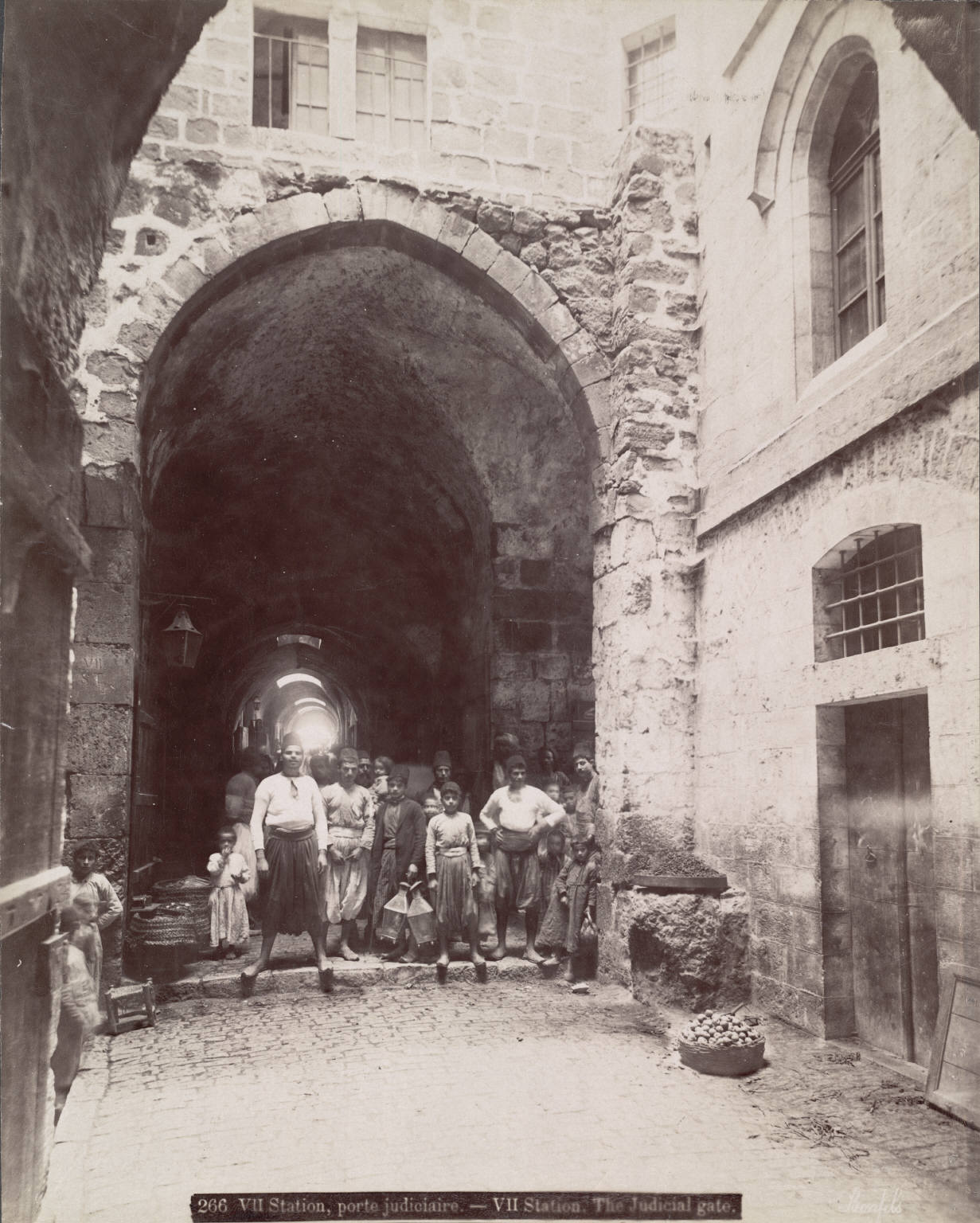 Old Jerusalem, Muslim Quarter, Suk Khan Az-Zait street, Seventh Station of the Via Dolorosa